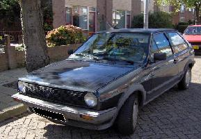 Volkswagen Polo, 1990.